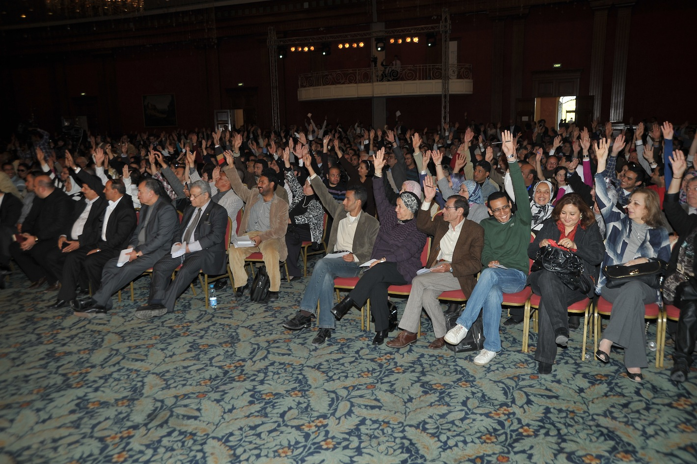 a picture from the conference of the party in Alexandria